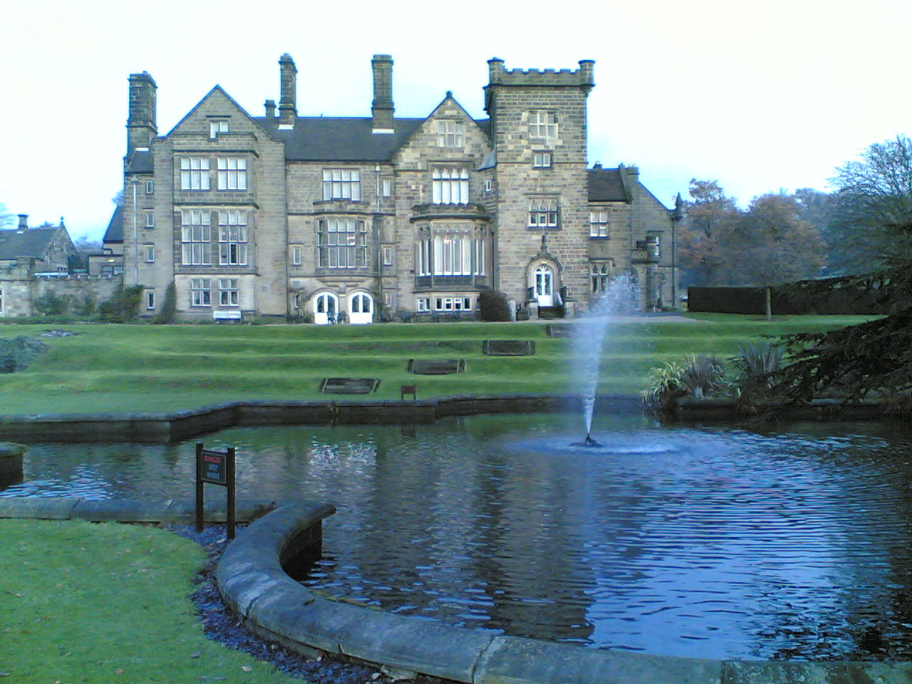 Breadsall Priory The morning after the night before.